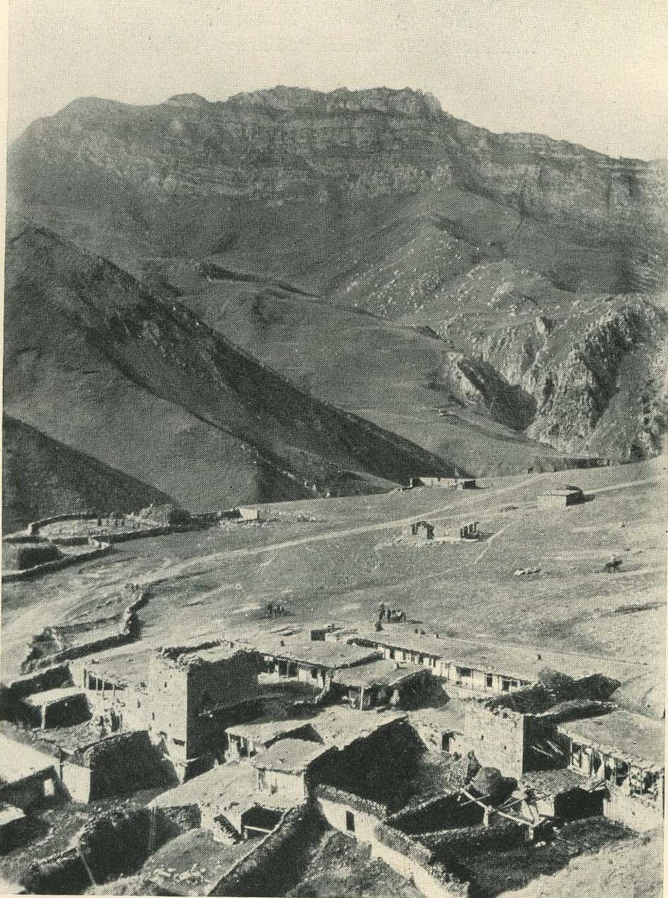 village Galanchoj